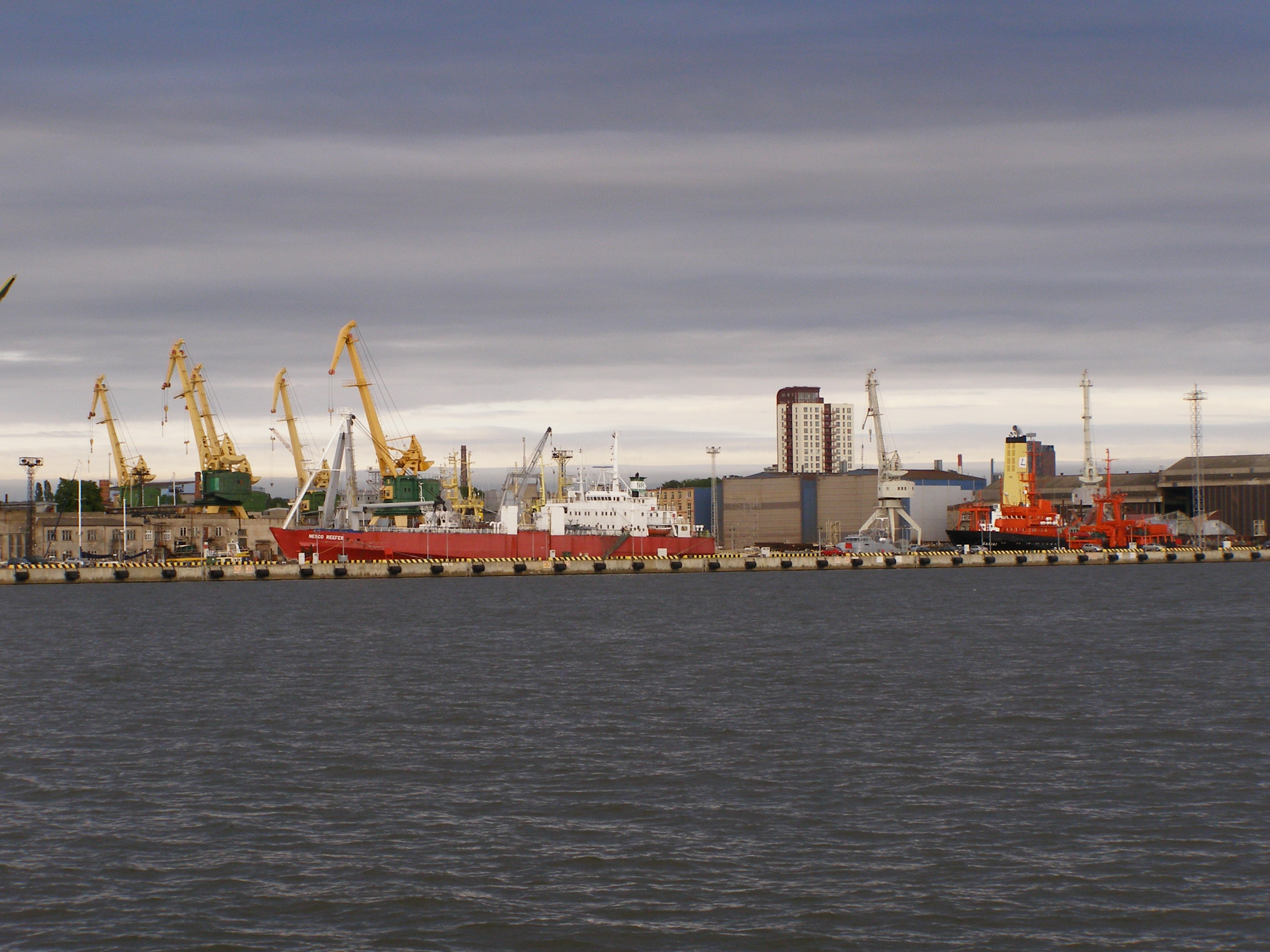 Klaipeda Port, Lithuania